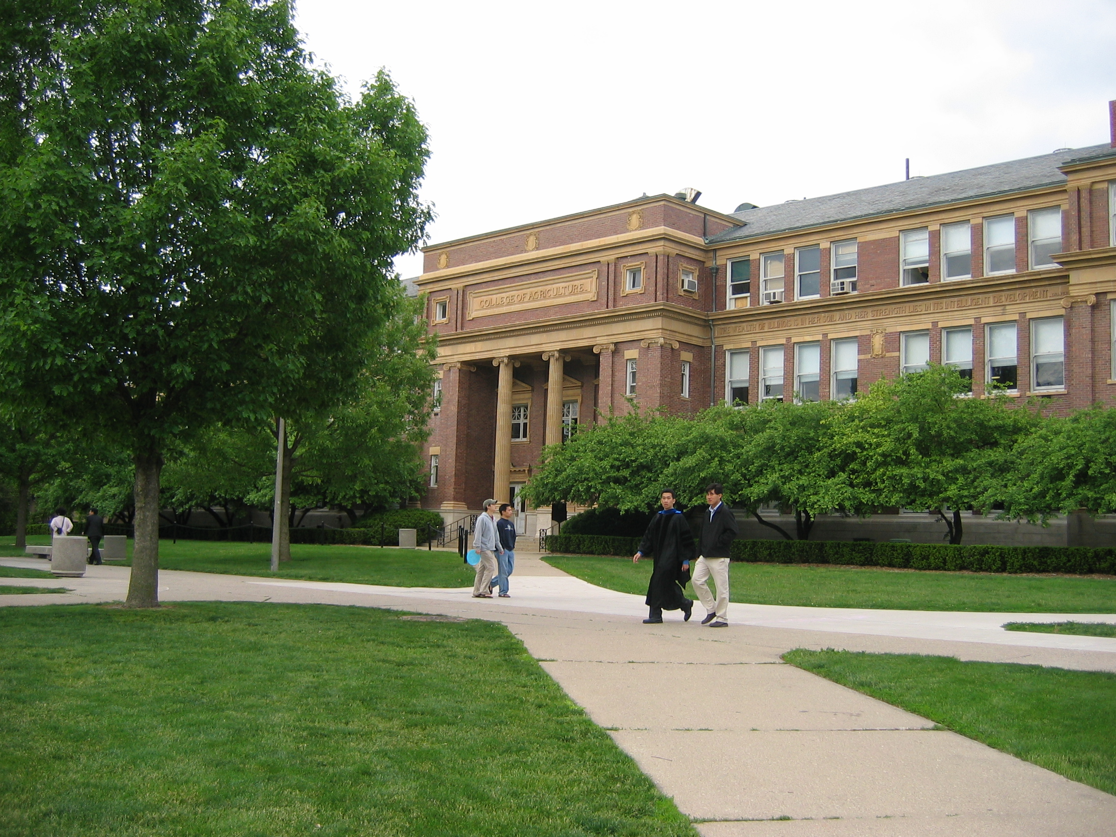 Taken by me in summer 2005.